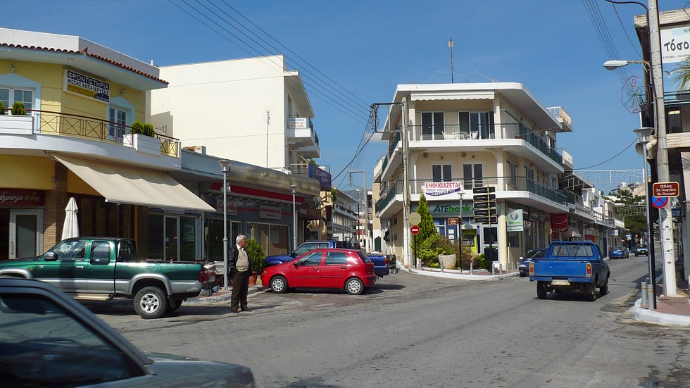 The Picture depicts the center of Spata.